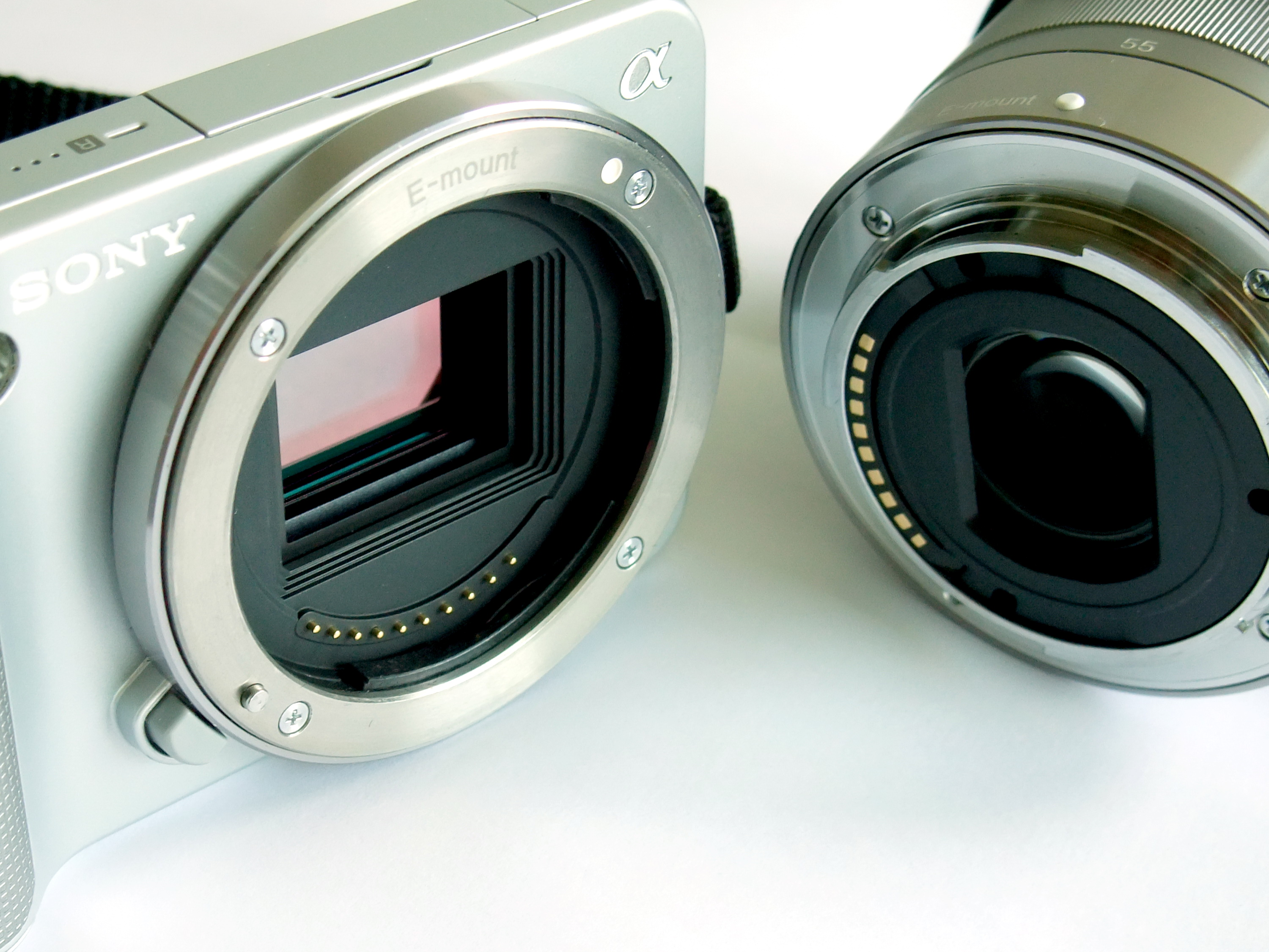 Sony NEX-3